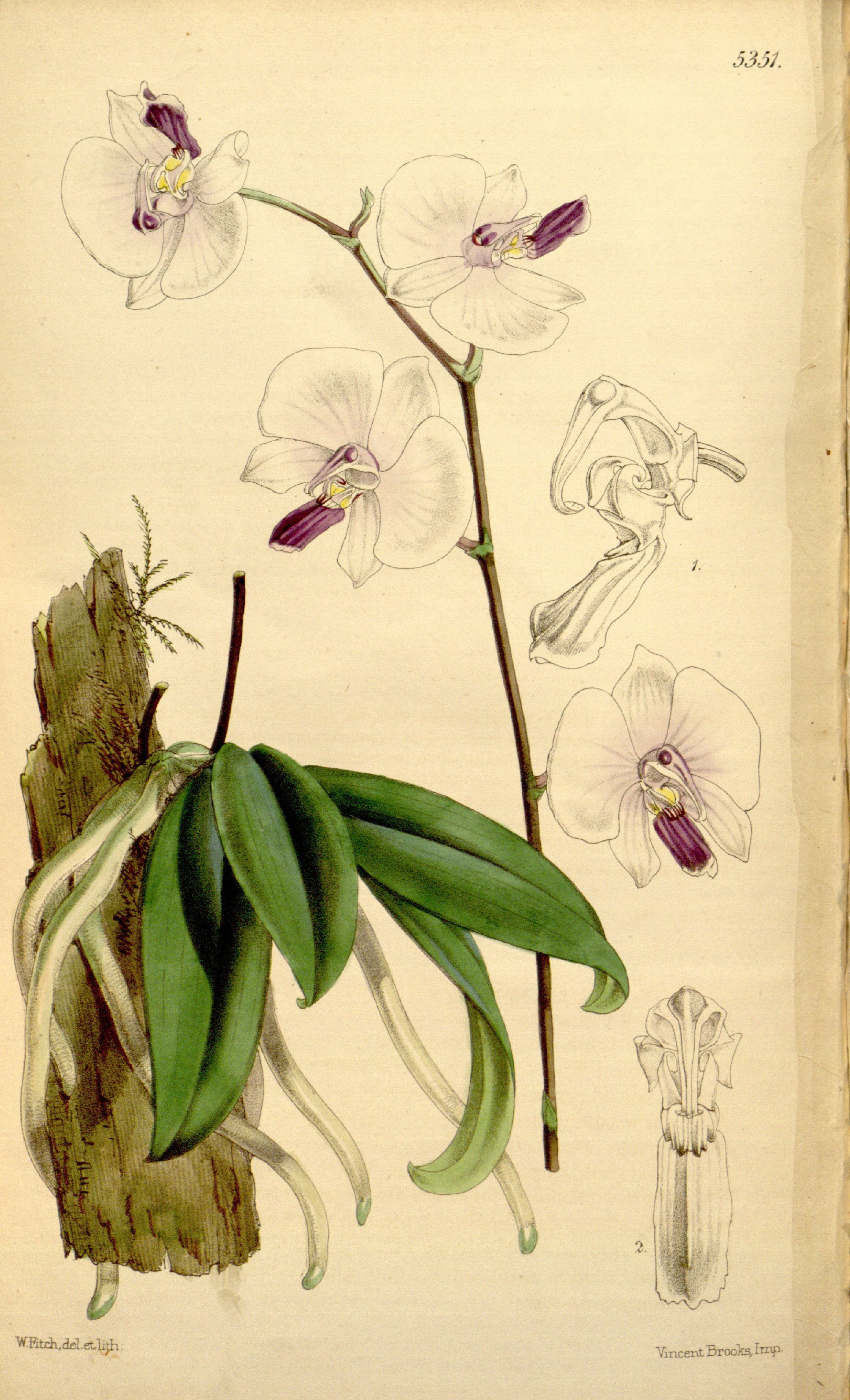 Illustration of Phalaenopsis lowii